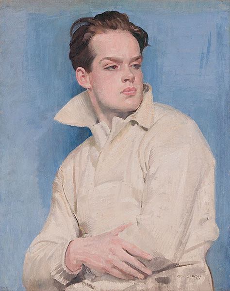 George W. Lambert, The half-back (the artist's son Maurice aged eighteen), 1920. Oil on canvas. 76.2 x 61cm. Signed and dated 'G.W.LAMBERT/ 1920' lower right. Art Gallery of South Australia, Adelaide, purchased through the South Australian Government Grant in 1958.